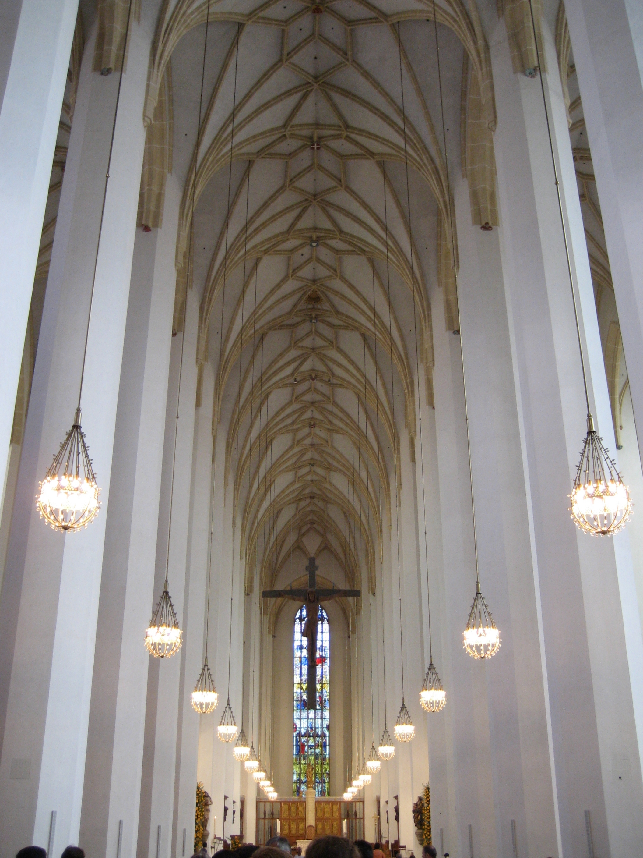 Picture of the Frauenkirche center nave. This picture shows the "no windows" effect found in the legend of the church, it holds true as long as you omit the large stained glass window. Picture taken by me on July 1st, 2006.